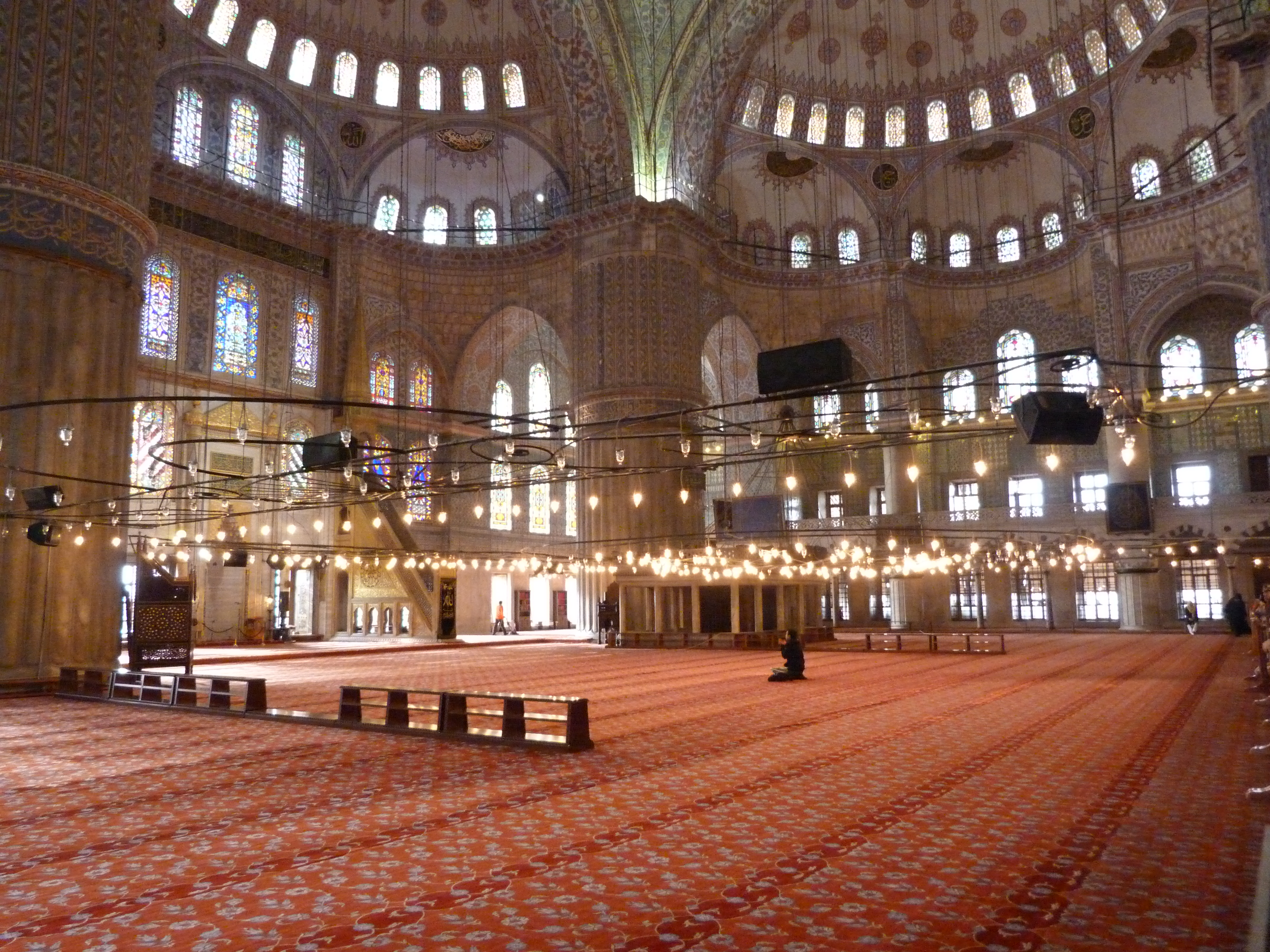 Live on the 23rd of october, 2014. Sultan Ahmed Mosque. ©© Derzsi Elekes Andor, Budapest, 2014, Published in the Metapolisz DVD line. You are authorised to use this vid under Creative Commons – even for commercial, for profit purposes. The vid must be attributed to Derzsi Elekes Andor. All of the photos and vids in the Metapolisz DVD line are under Creative Commons and can be used even for commercial – for profit – purposes. Recommended Citation Derzsi Elekes Andor: Metapolisz DVD line